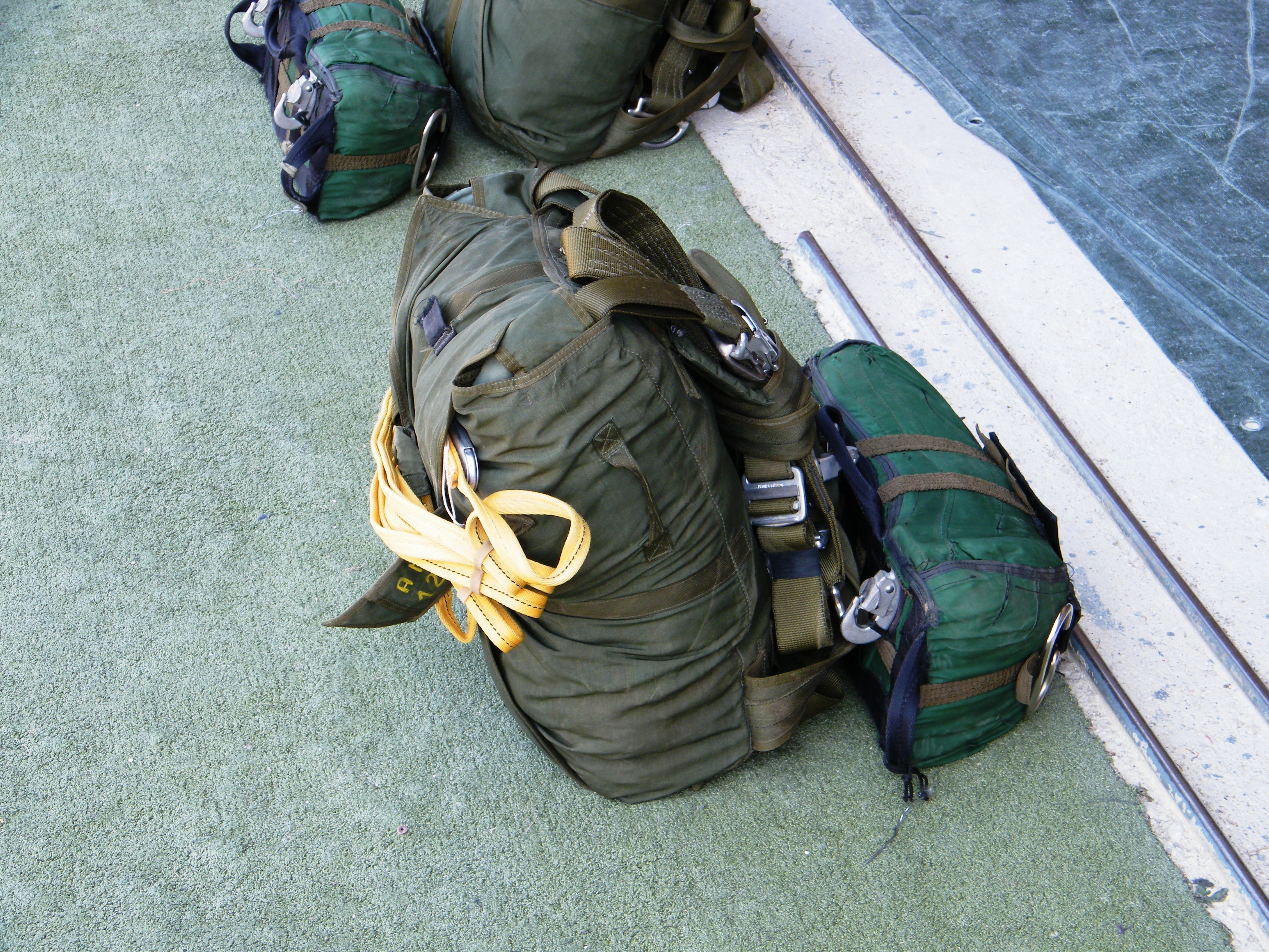 Folded round parachutes (normal and emergency, the smallest on the right) of the Associazione Nazionale Paracadutisti d'Italia